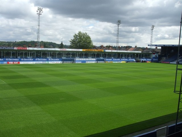 Luton Town FC Newly laid pitch ready for the 2009-10 season in the Blue Square Premier League